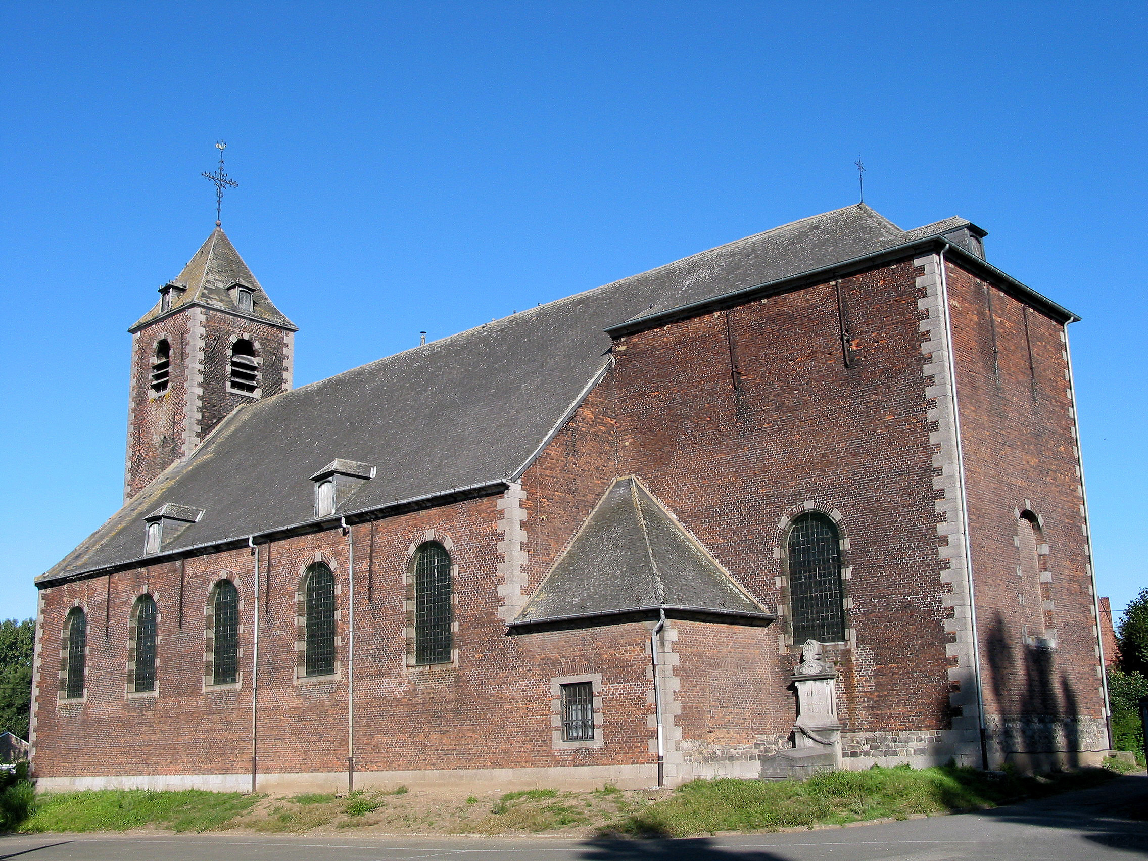 Jurbise (Belgium), the St. Eloisus' churc.